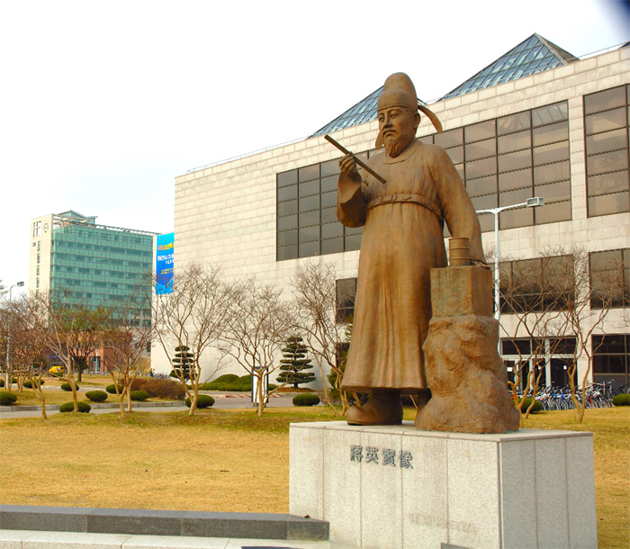 A Korean Scientist, Jang Yeong-sil